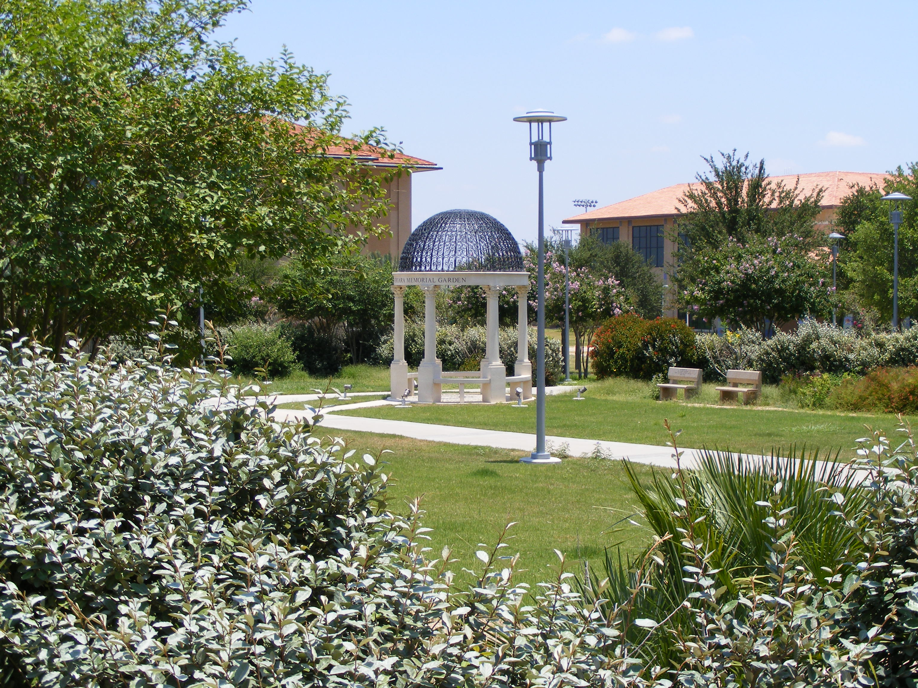 TAMIU Garden in Laredo, Texas